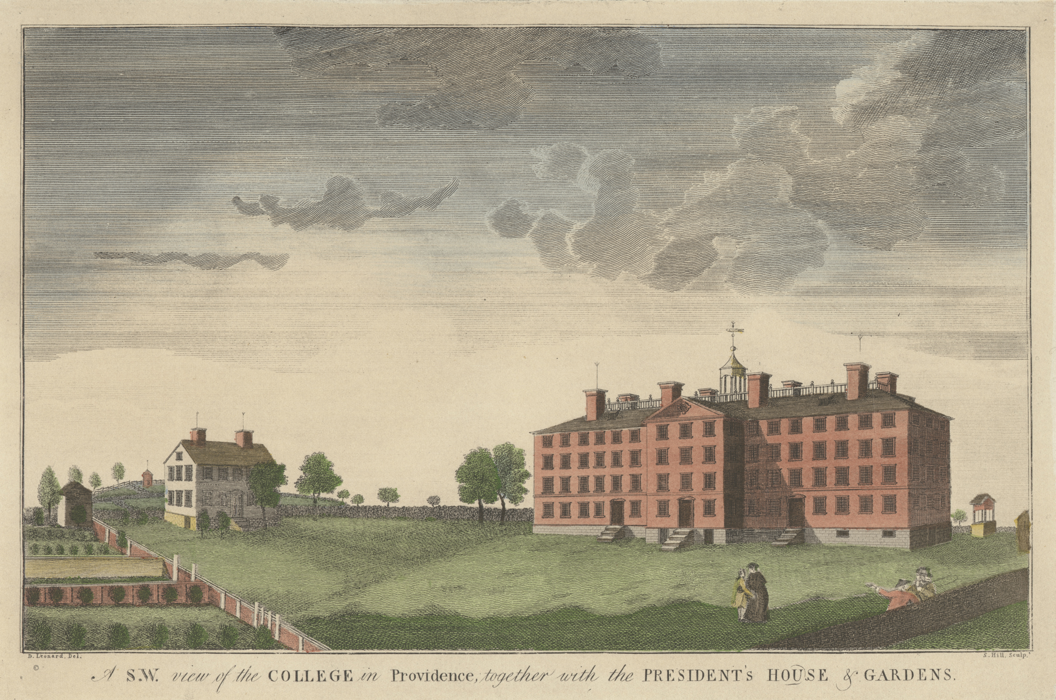 A black and white engraving by artist David Leonard, class of 1792. First published view of the campus, "A S.W. view of the College in Providence together with the President's House and Gardens." Providence, 1792.